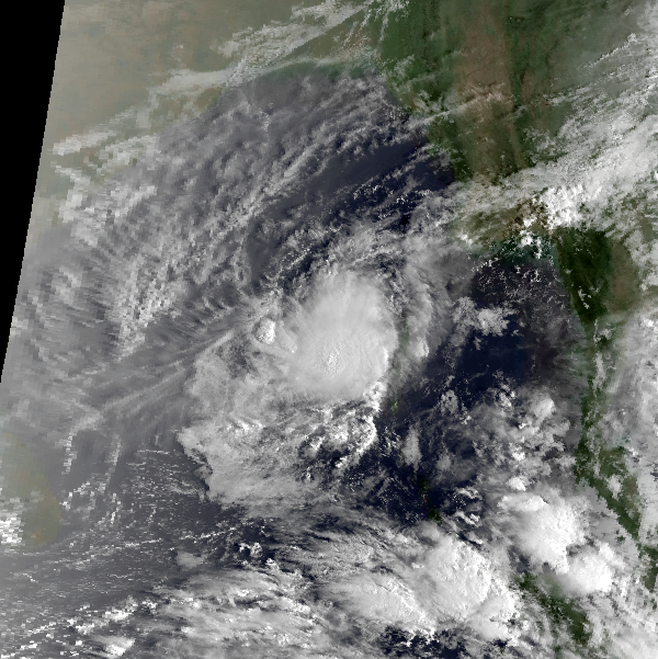 Tropical Storm One of the 1994 North Indian cyclone season on March 23, 1994.